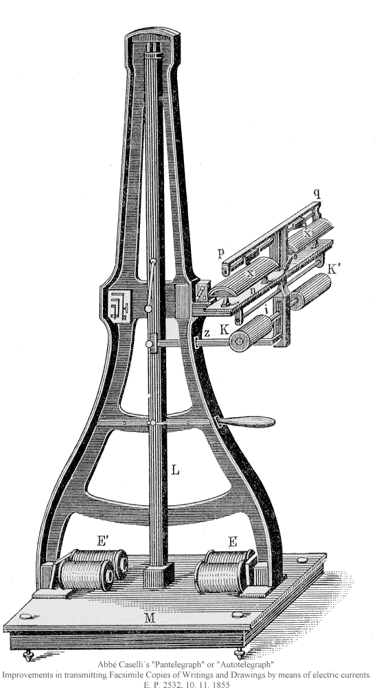 Pantelegraph or autotelegraph by Giovanni Caselli